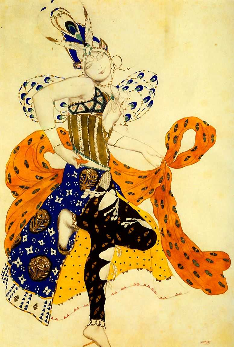 Эскиз костюма Пери к балету Поля Дюка *Пери*. 1911 Design for Nathalie Trouhanova's Costume as La Péri 1911. Lithograph colored by hand in watercolor, gold and silver paint. 59,8 x 43,7 cm. Thyssen-Bornemisza Collection. Lugano.